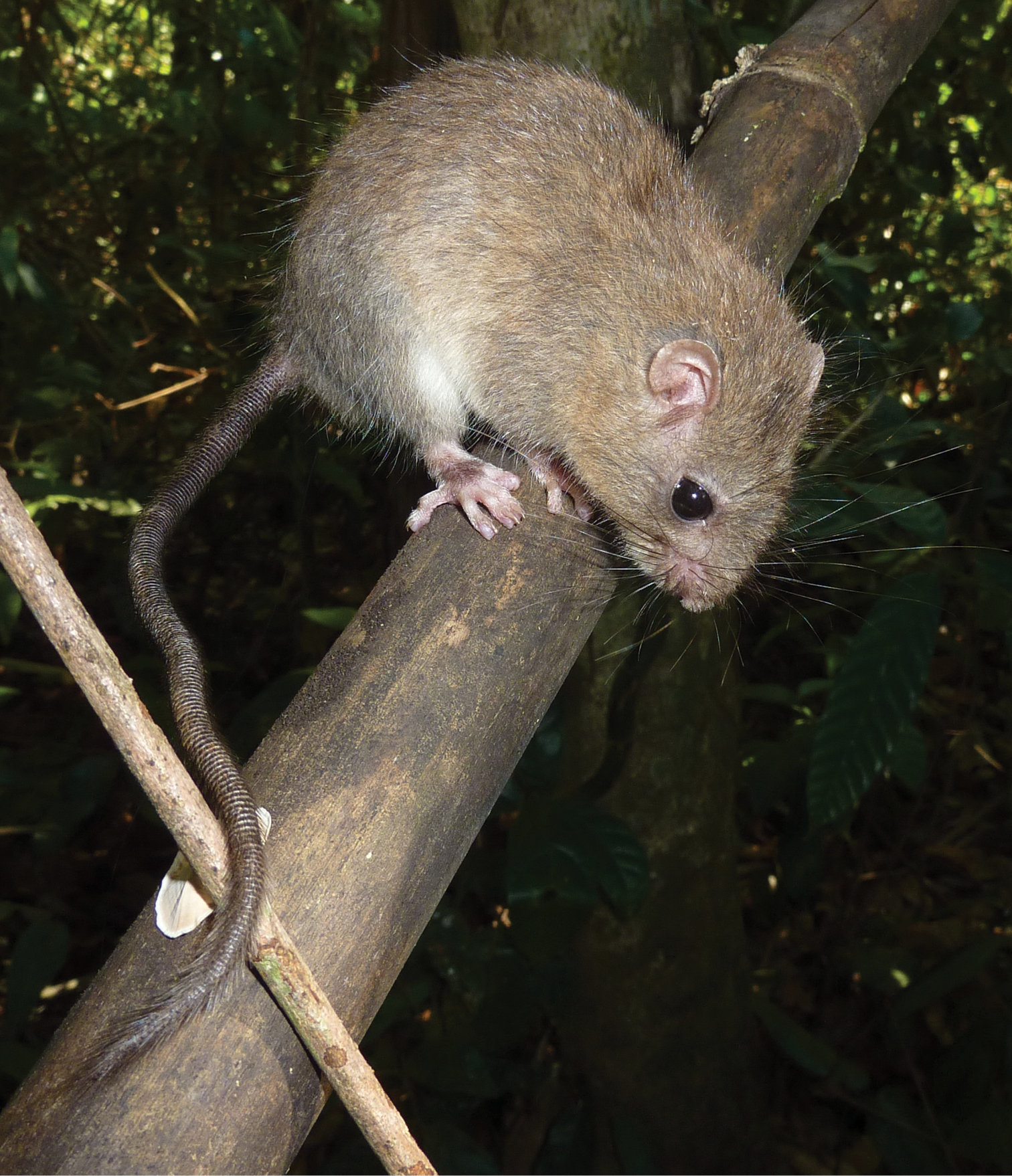 Adult male of Hapalomys delacouri from Bu Gia Map, Binh Phuoc Province (Southern Vietnam).